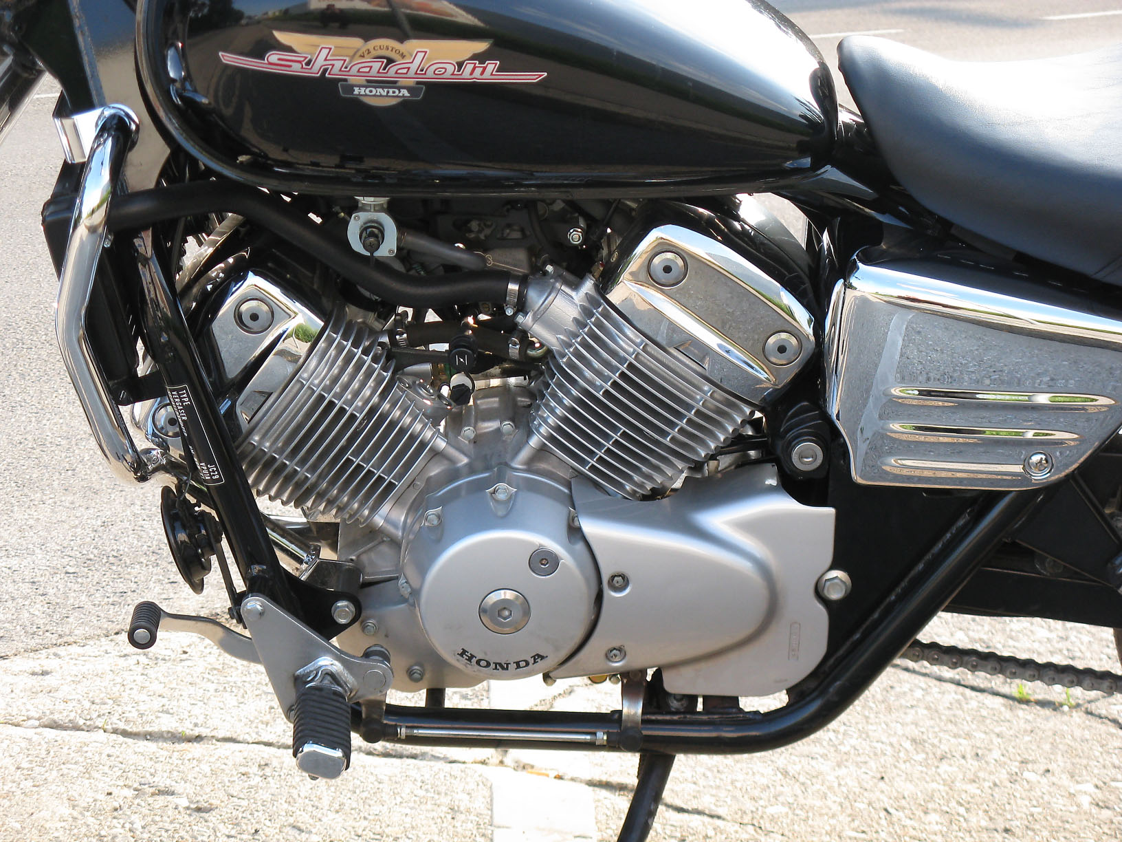 Honda Shadow VT 125 C1 V-Twin Engine